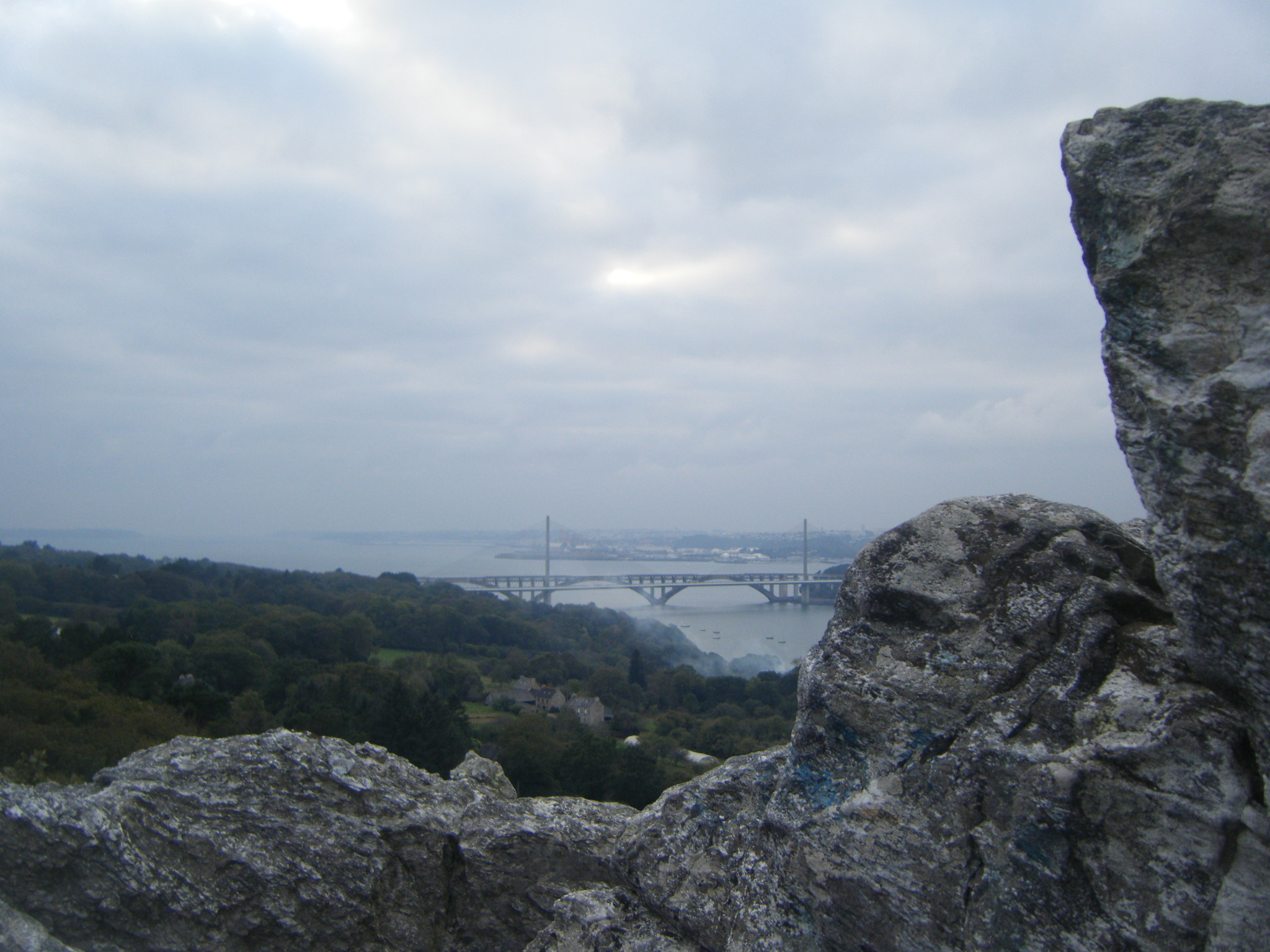 From the top of Roc'h Koad Pehen in Plougastell